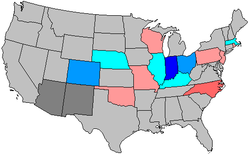 Summary of party change of U.S. house seats in the 1908 House election. Stripes indicate a tie between the gains of two or more parties. Legend: 6+ Democratic seat pickup 3-5 Democratic seat pickup 1-2 Democratic seat pickup 1-2 Republican seat pickup 3-5 Republican seat pickup 6+ Republican seat pickup 1-2 Progressive seat pickup 1-2 Farmer-Labor seat pickup 1-2 Socialist seat pickup Note: years ending in 2 may have inconsistent results due to redistricting.